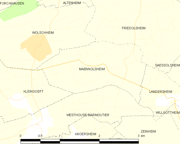 Map of French municipality